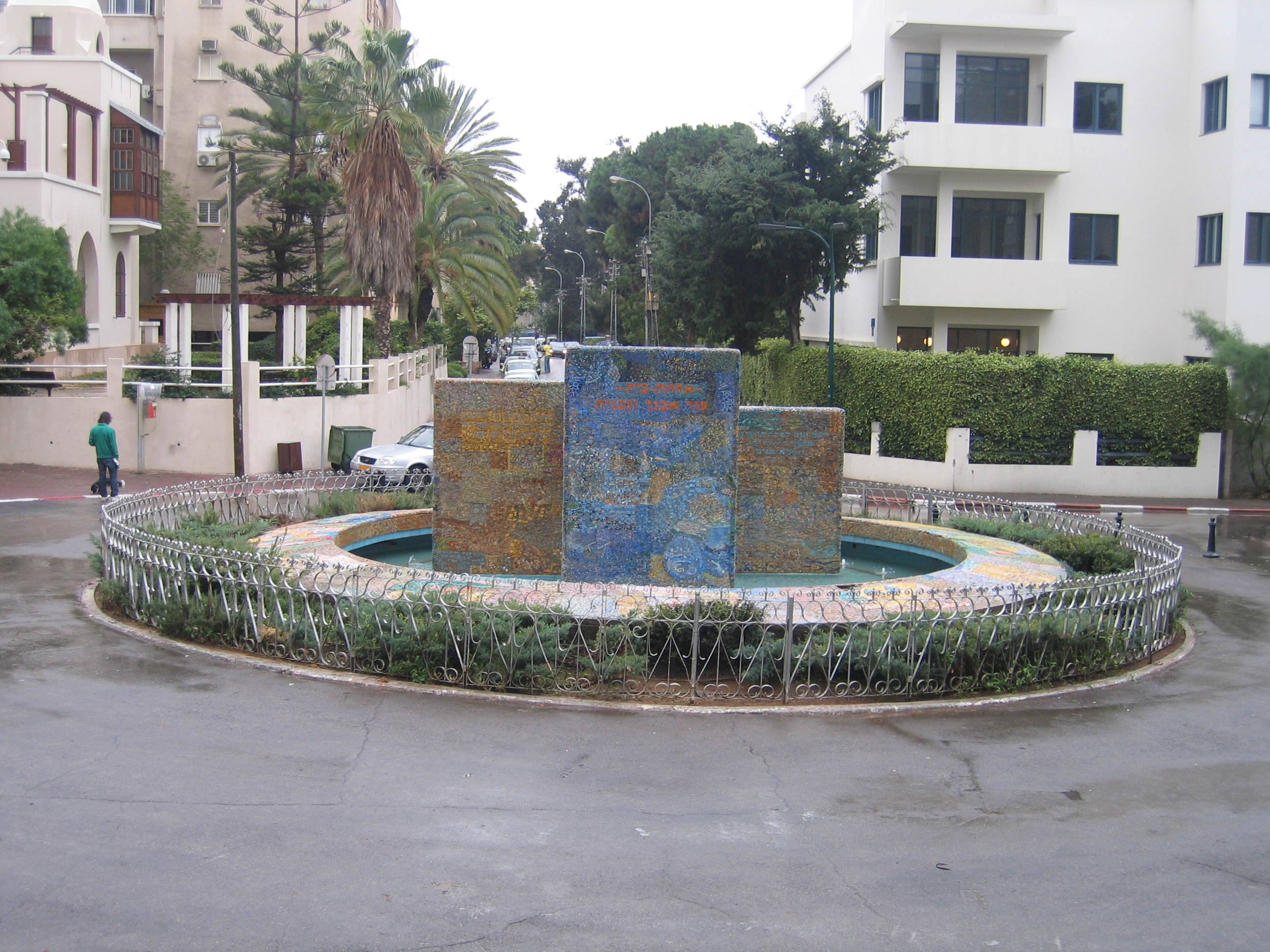 the mosaic describe 4000 yers of tel aviv's history. from the mid 1970'